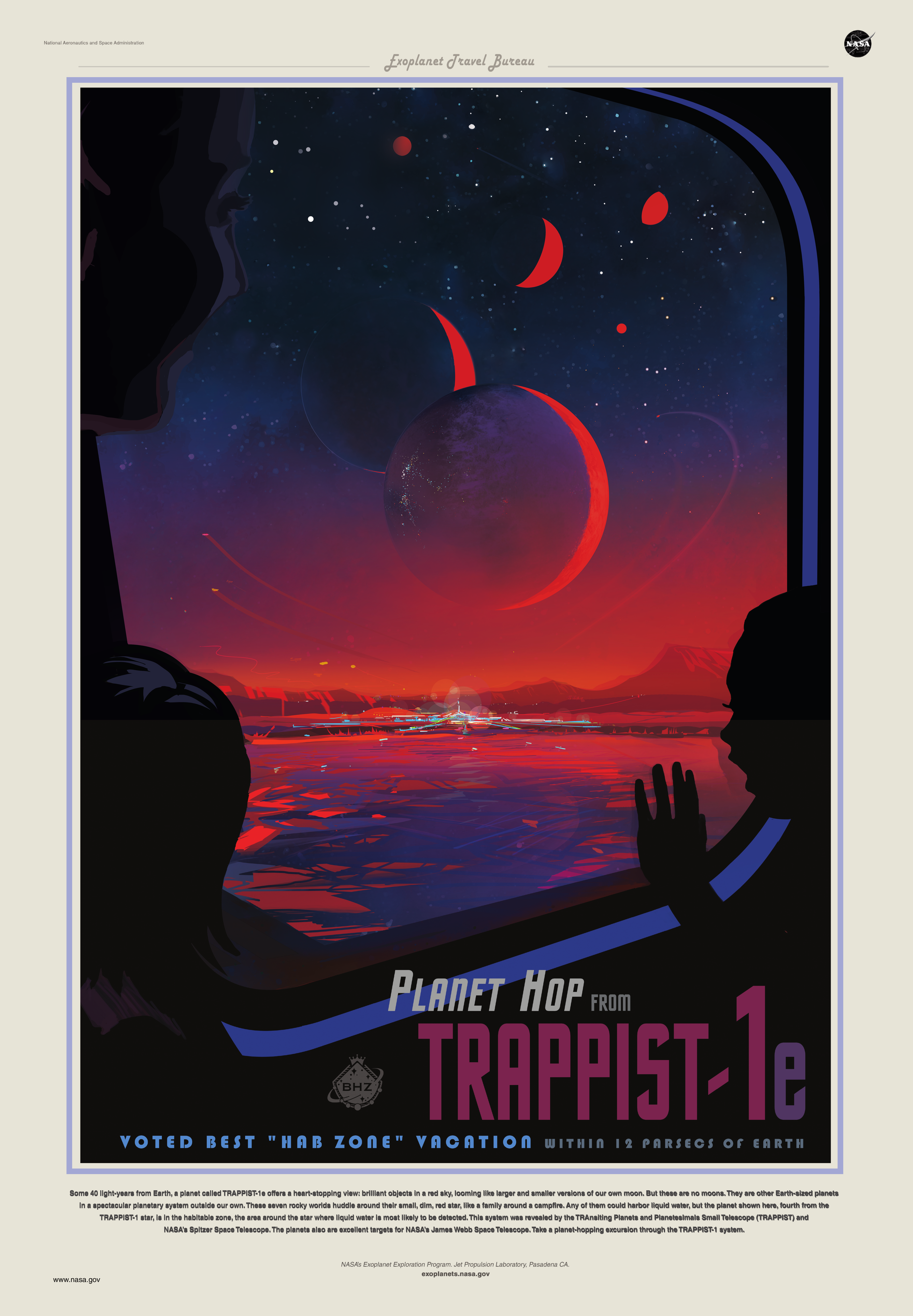 "Planet hop from TRAPPIST-1e - Voted best 'hab zone' vacation within 12 parsecs of Earth" Poster from the NASA Exoplanets Exploration Program's Exoplanet Travel Bureau